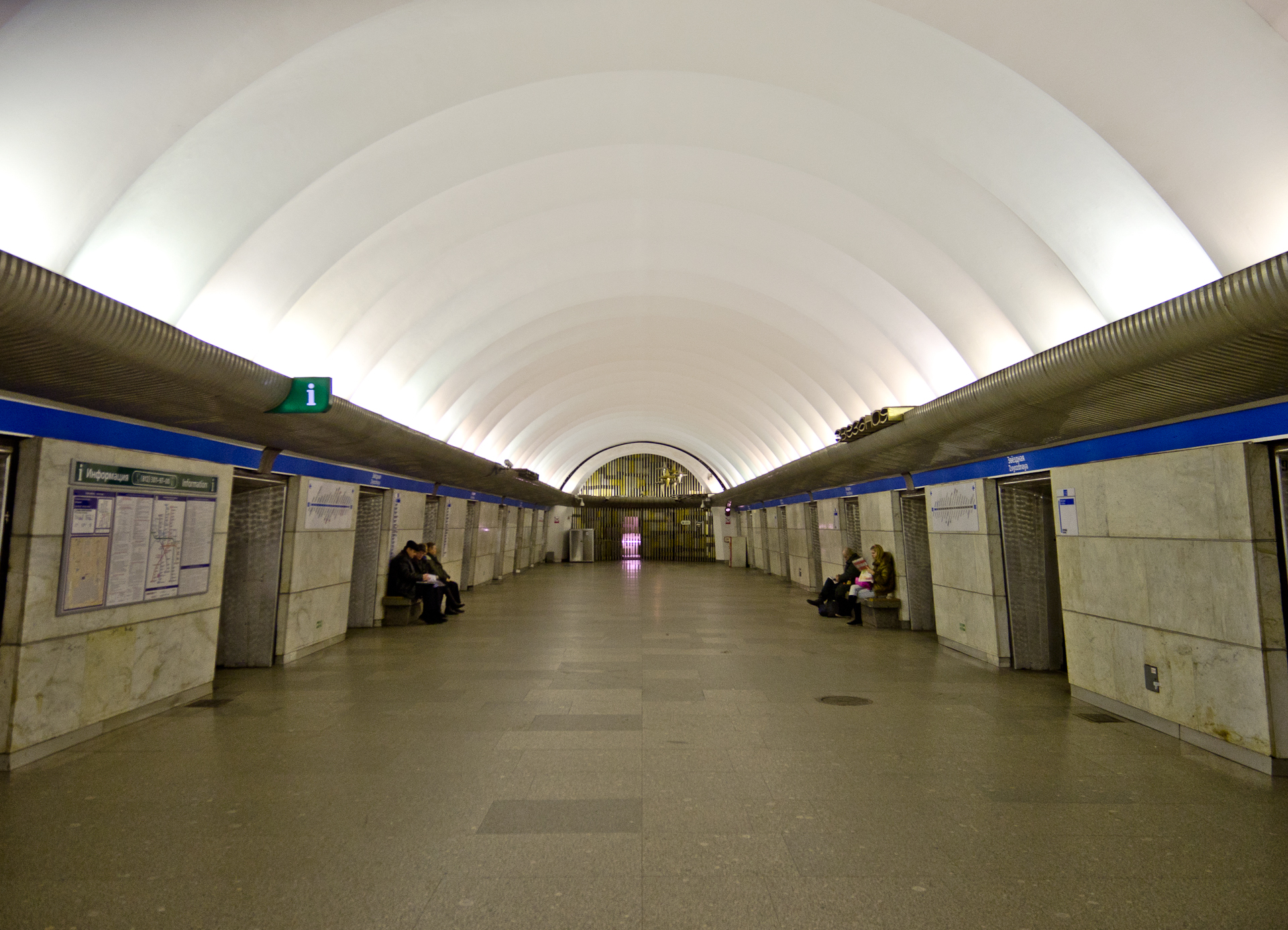 Zvyozdnaya station of Saint Petersburg Subway